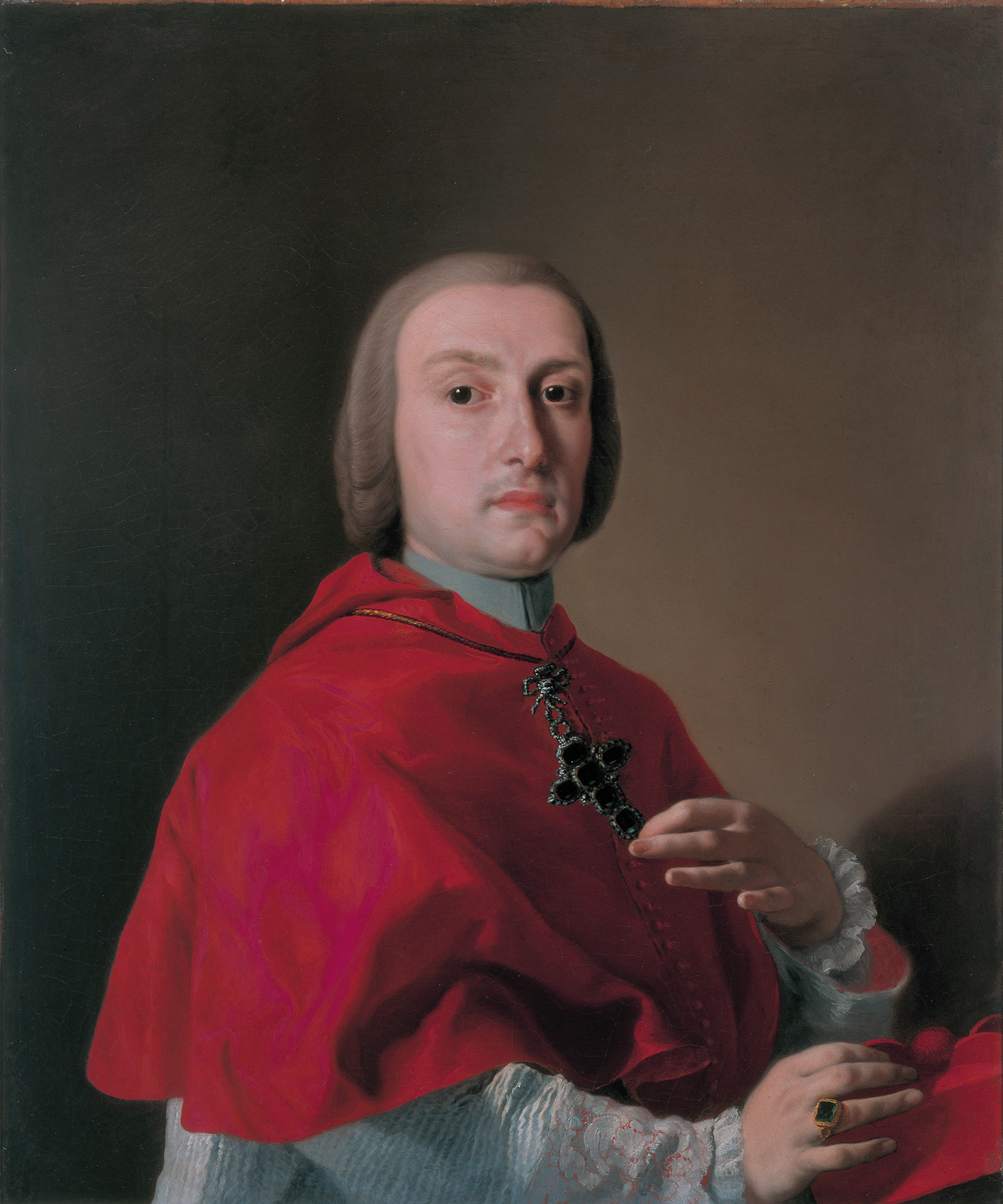 Cardinal Antonio Sersale